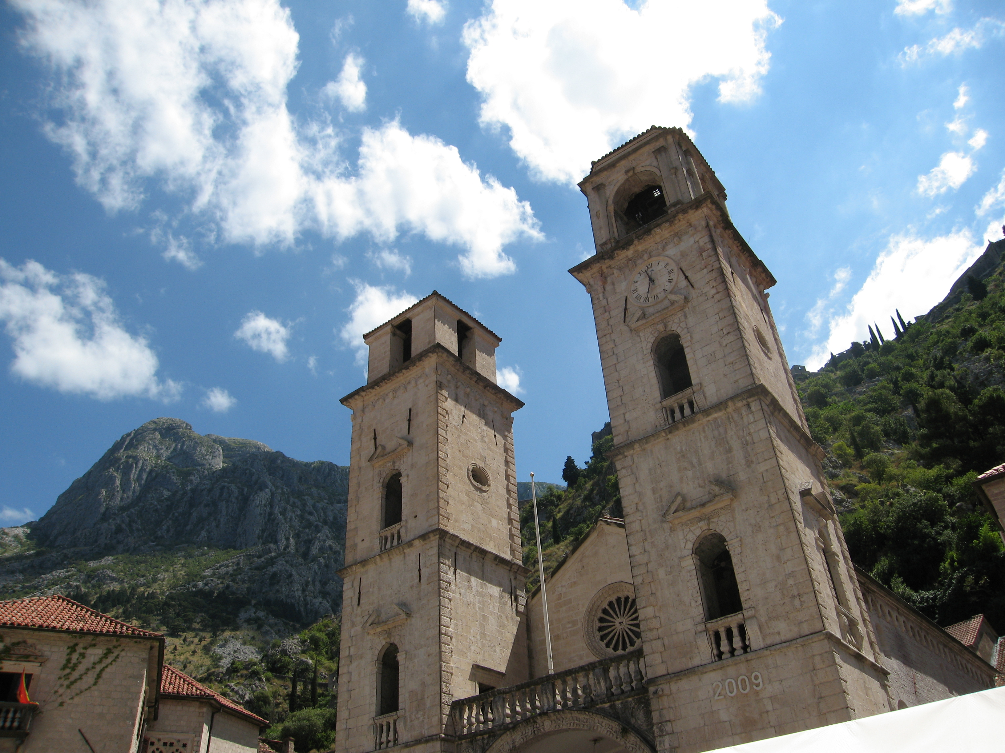 The catholic cathedral of Kotòr